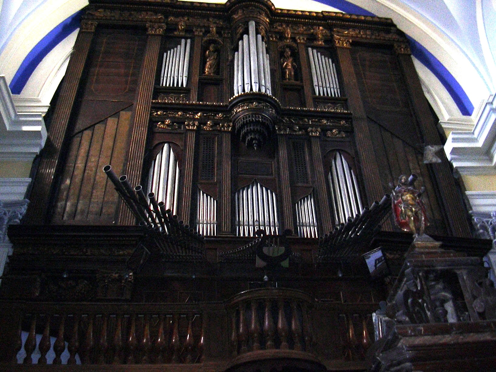 Borja - Colegiate church of Saint Mary (12th to 16th century) - Organ